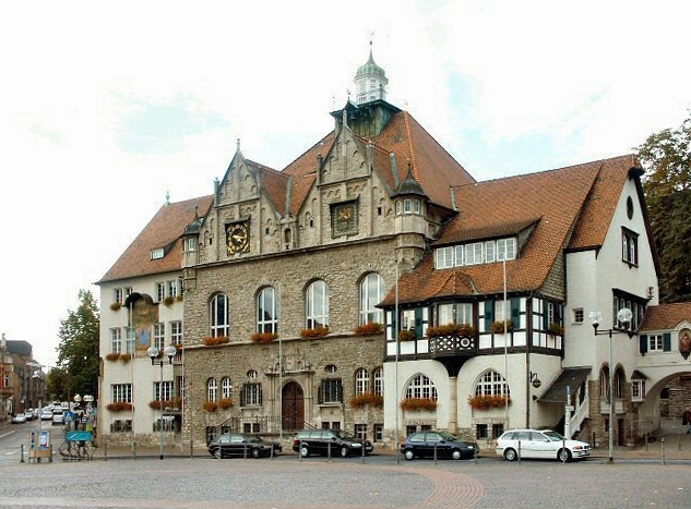 Old town-hall of Bergisch-Glattbach